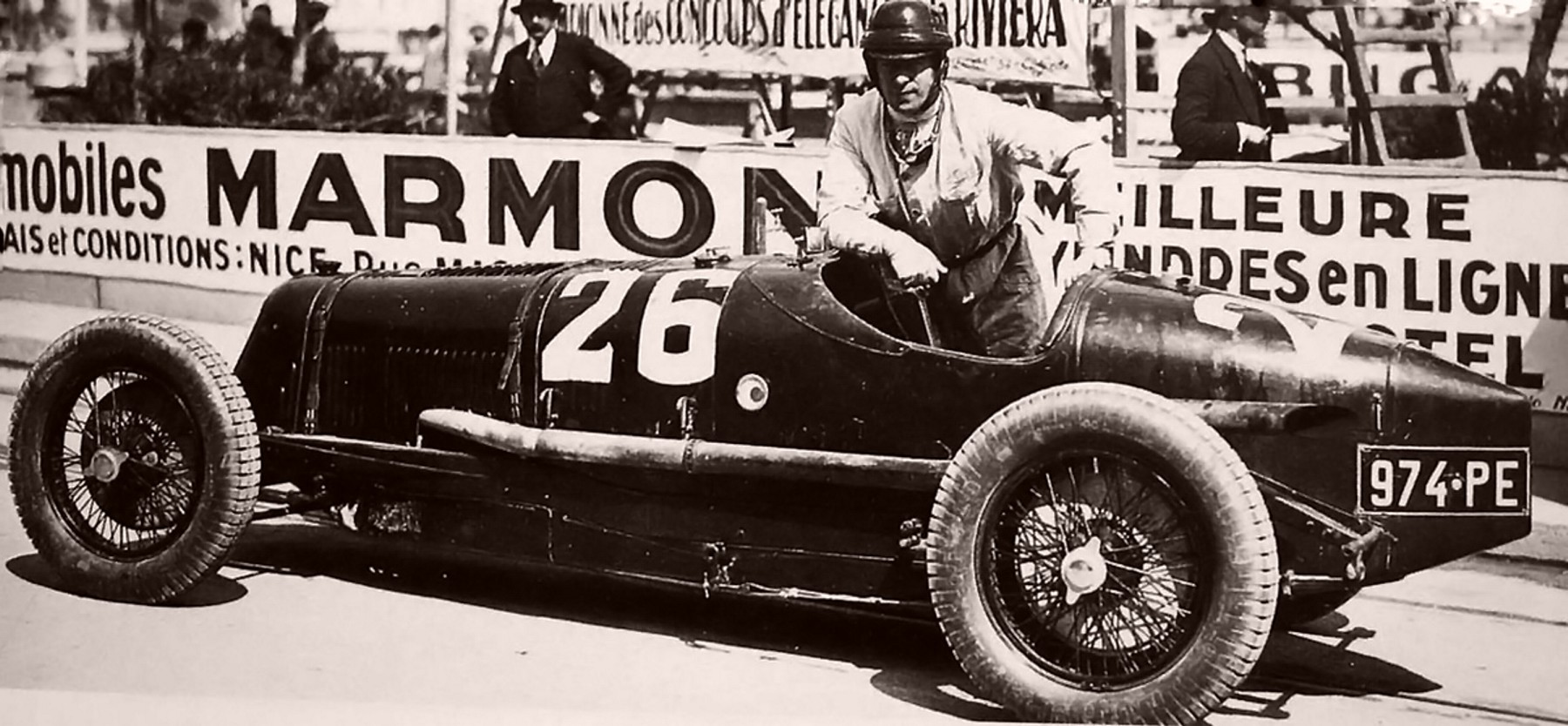 Diego de Sterlich and Maserati 26B (8C-2000, an 8-cylinder 2-litre engine). This is at the 1929 Monaco GP on 14 april. He had entry #26 and did not finish.[1]